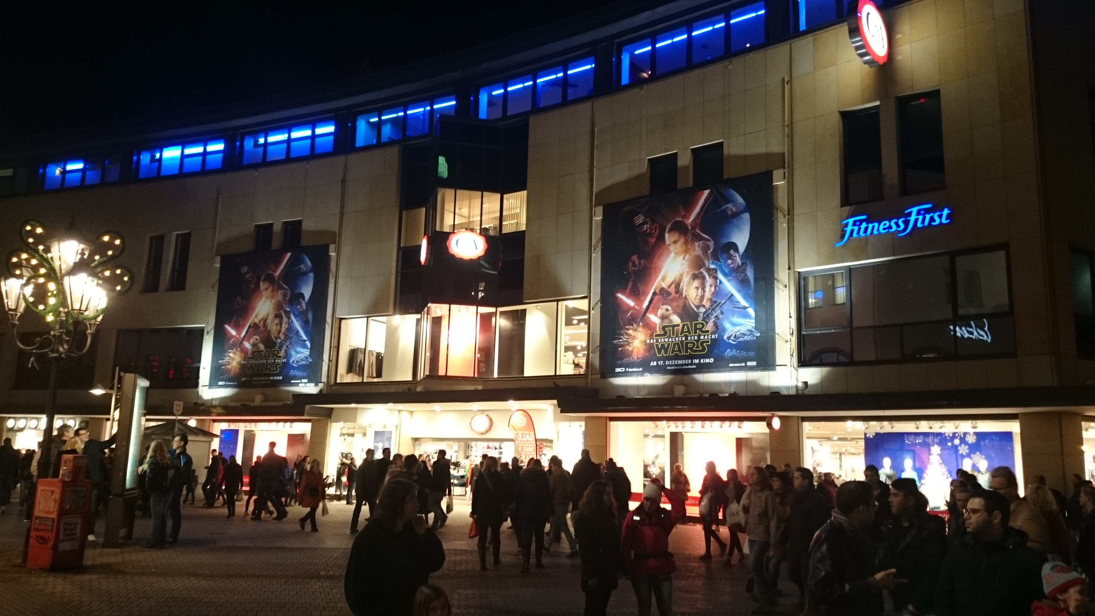 Large-scale outdoor advertising for Star Wars: The Force Awakens in the city centre of Nuremberg as seen from the Ludwigsplatz.